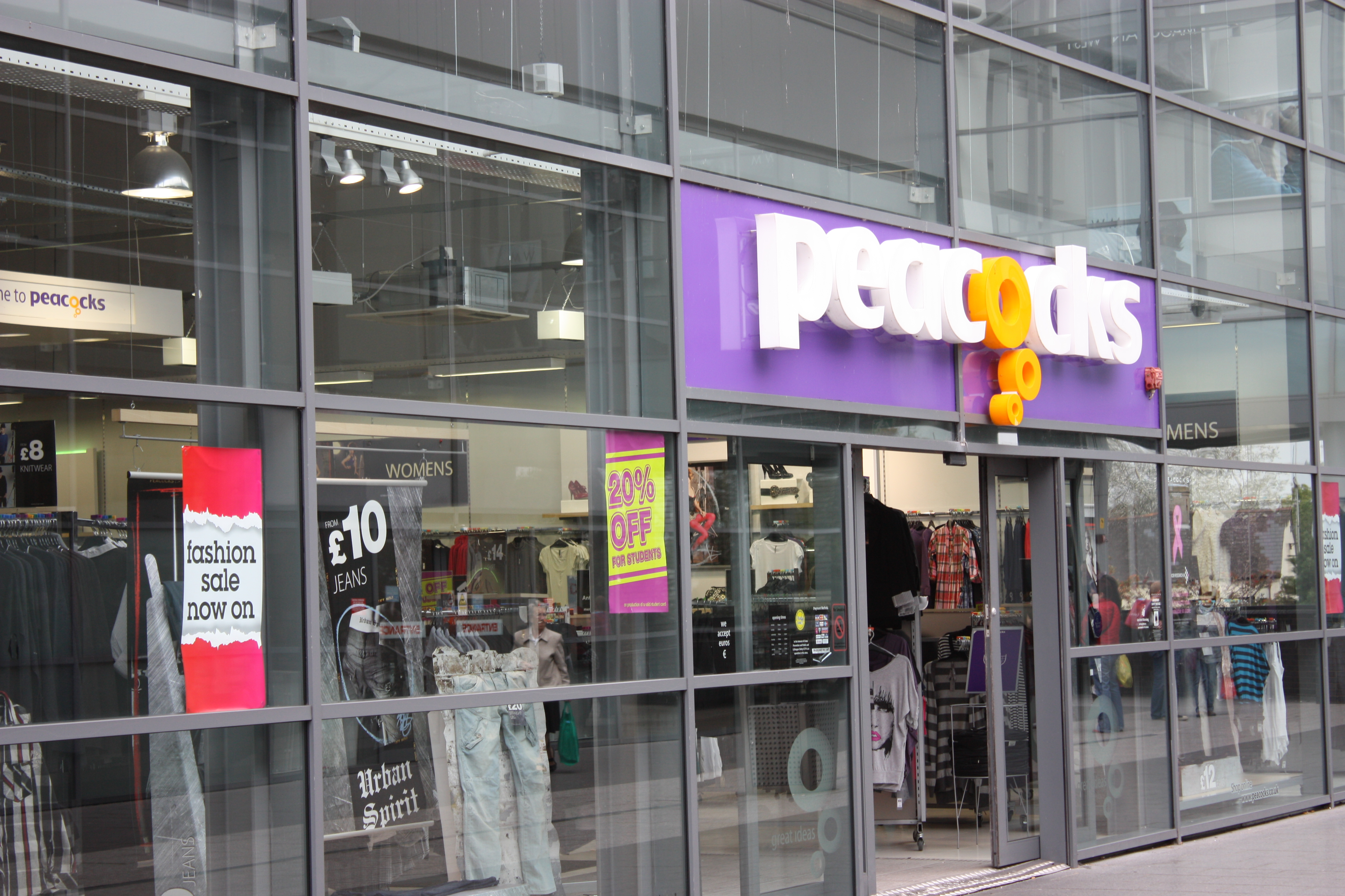 Peacocks, Magowan West shopping centre, Portadown, County Armagh, Northern Ireland, September 2009